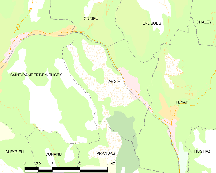 Map of French commune: Argis Map commune FR insee code 01017.png